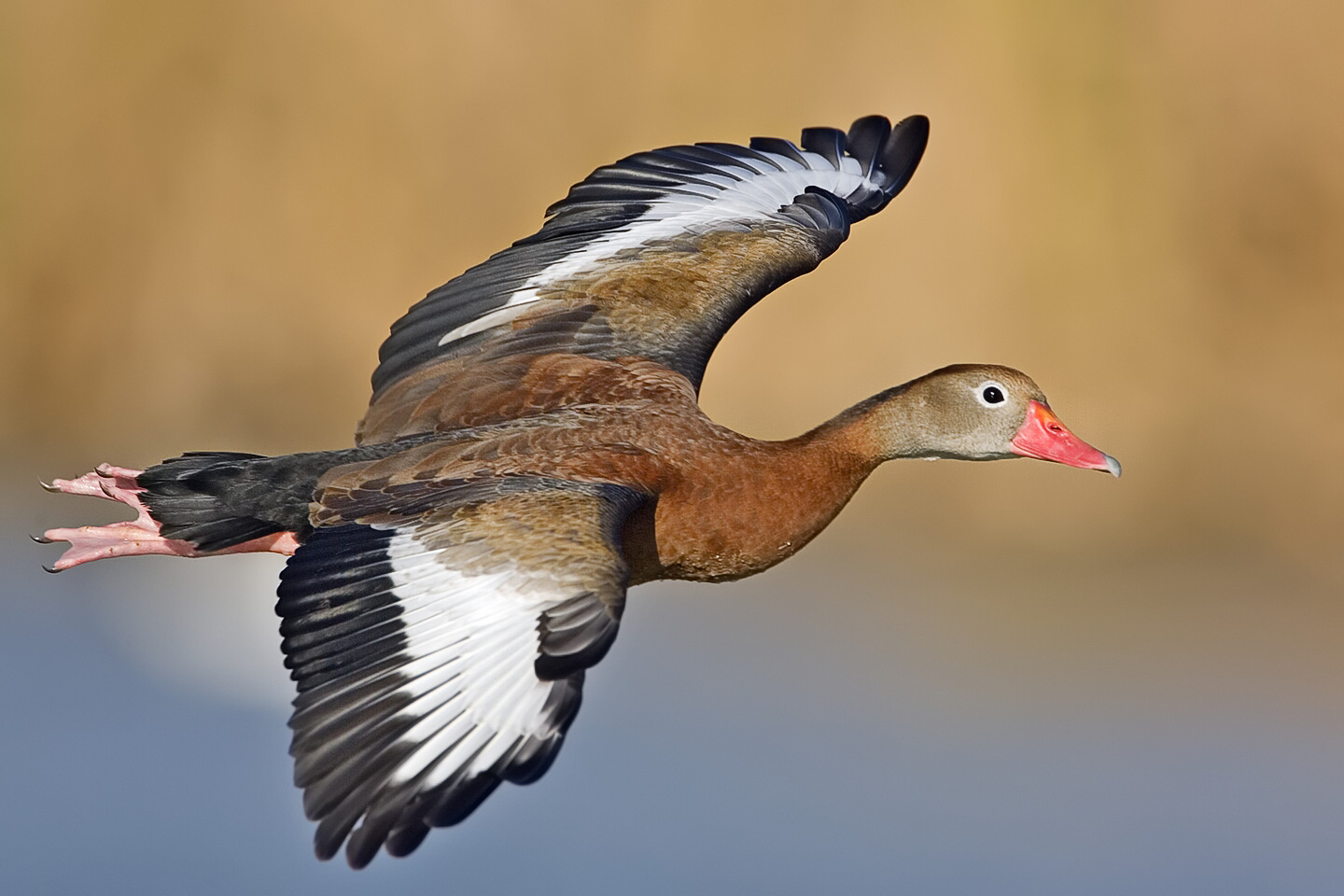 Black-Bellied Whistling Duck, Birding Center, Port Aransas, Texas